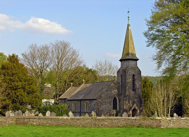 Parish church: Betws Bledrws The 1:50000 and 1:25000 OS maps do not show unambiguously which square this is in. According to the large-scale OS digital maps, the centre-point of the church is just north of the line (by 15 cm, I estimate) so I have put it in this square. This is an "estate church" originally supported by the nearby Derry Ormond estate, and is dedicated to the obscure St Bledrws.